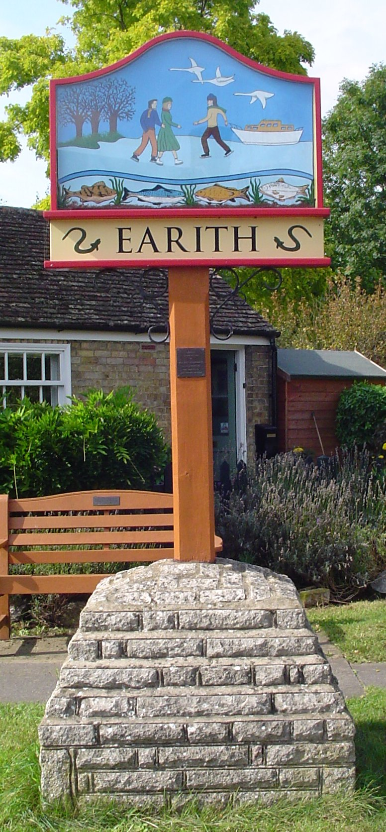 Signpost in Earith